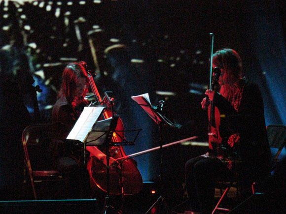 Stars of the Lid @ The Echoplex, Los Angeles, CA